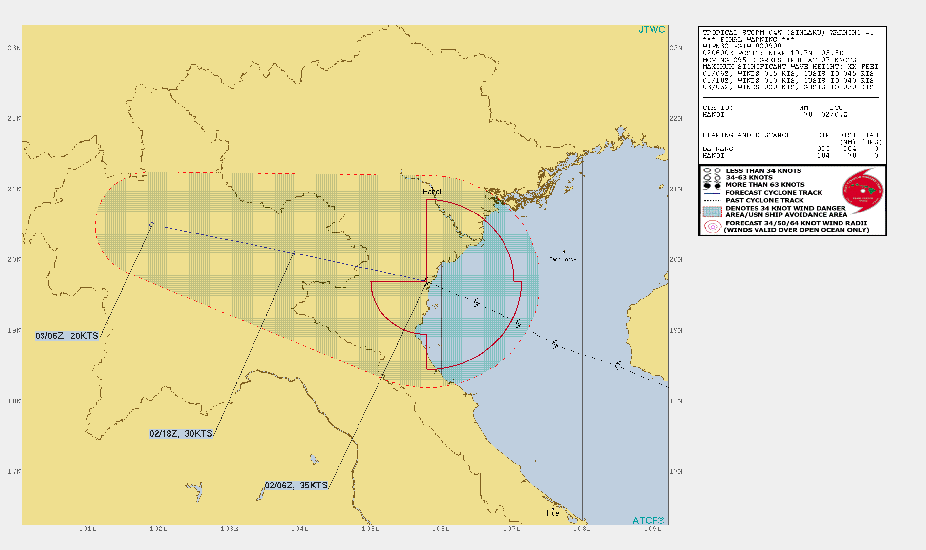 Joint Typhoon Warning Center's tropical warning of Northwest Pacific/North Indian Ocean tropical storm Sinlaku #01.